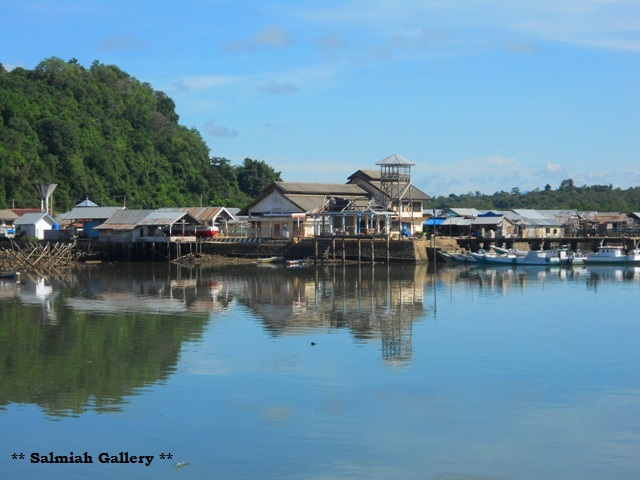 Photo of Torobulu, a village in South Konawe Regency, South East Sulawesi, Indonesia.